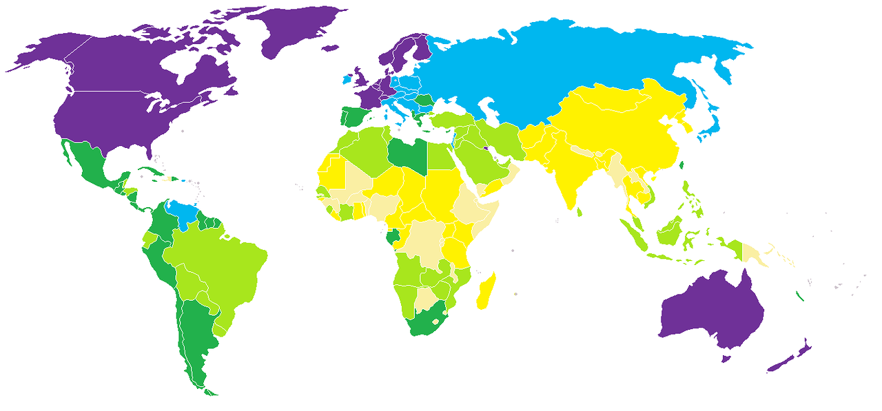 Different GDP per capita levels Data based on a west german schoolbook:Harms Geschichts Atlas (1971) ISBN: 347115440 (germany)